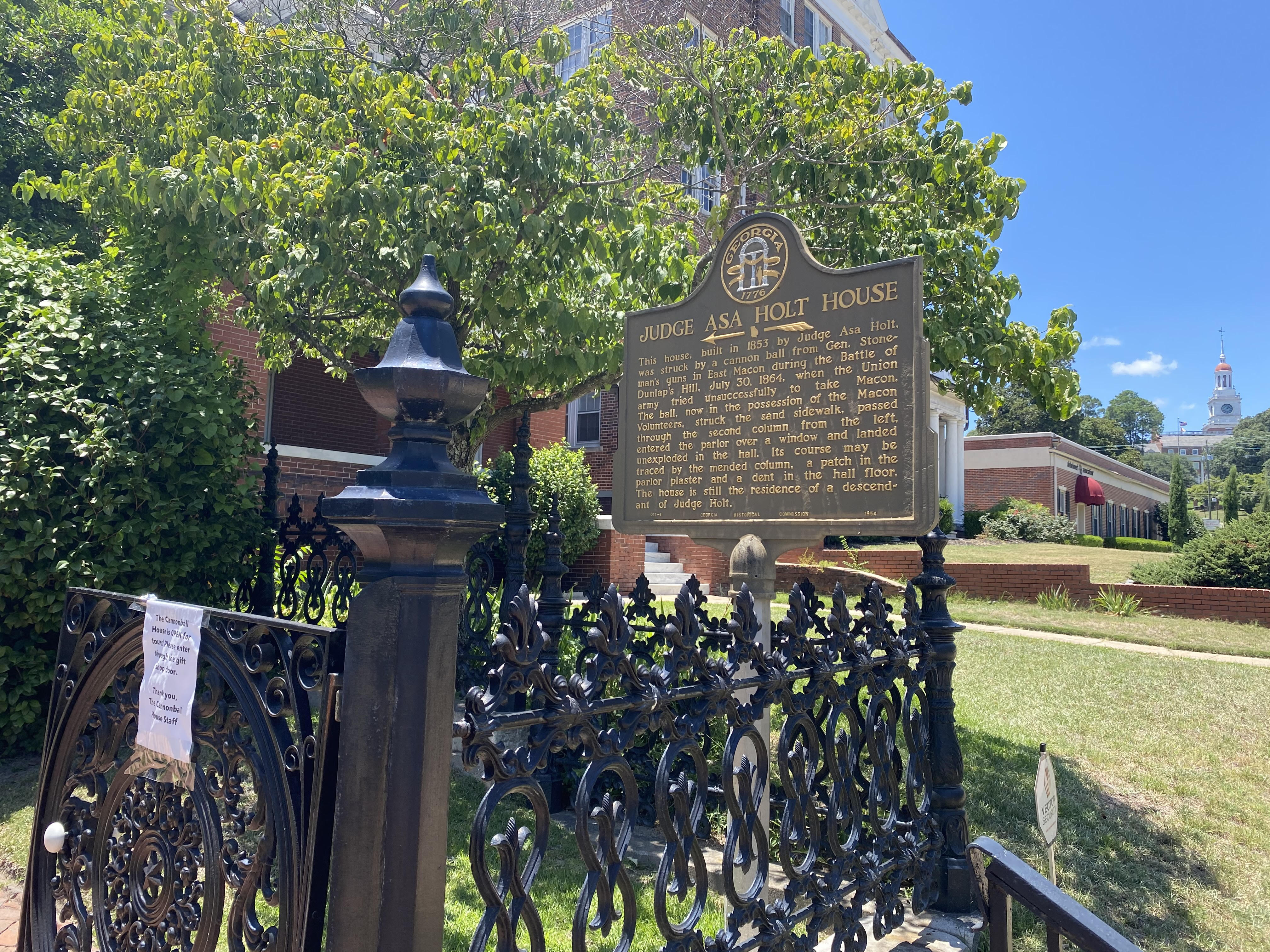 Cannonball House surroundings